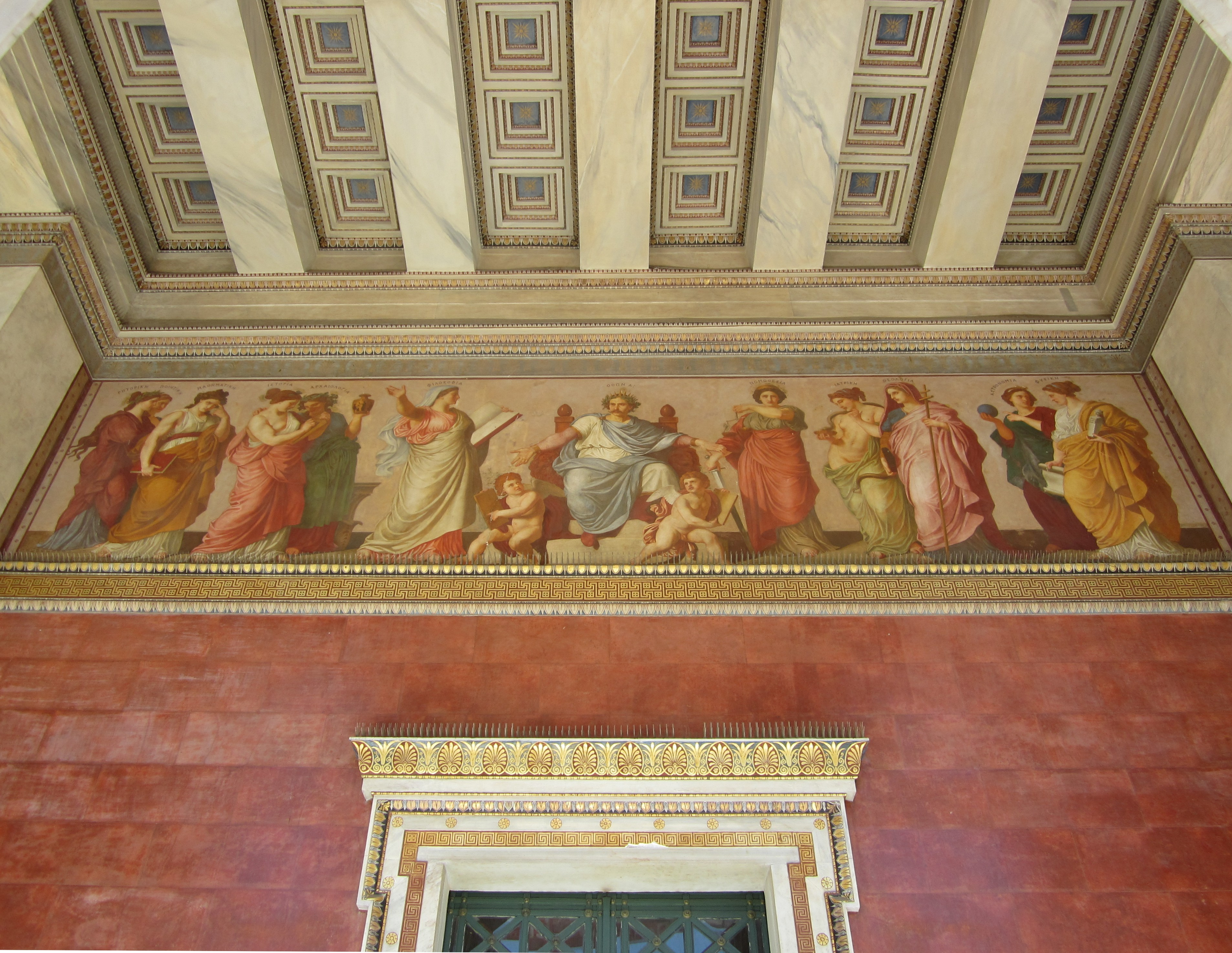 Center facade fresco, showing personifications for different sciences. National and Kapodistrian University of Athens. Painter: Eduard Lebiedzki, after a design by Karl Rahl, ca. 1888.